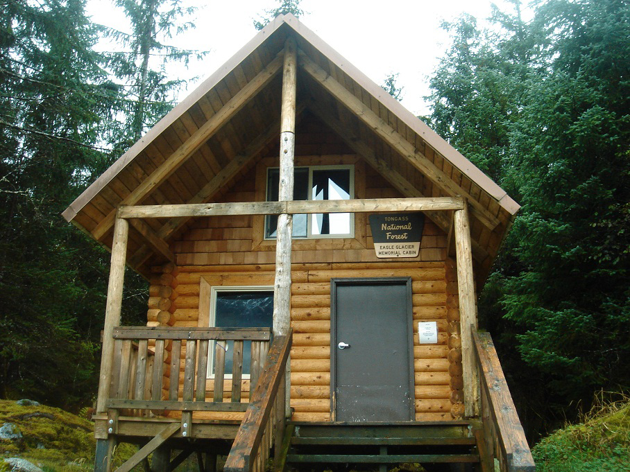 Eagle Glacier Memorial Cabin in Tongass National Forest near Juneau, Alaska October 2011